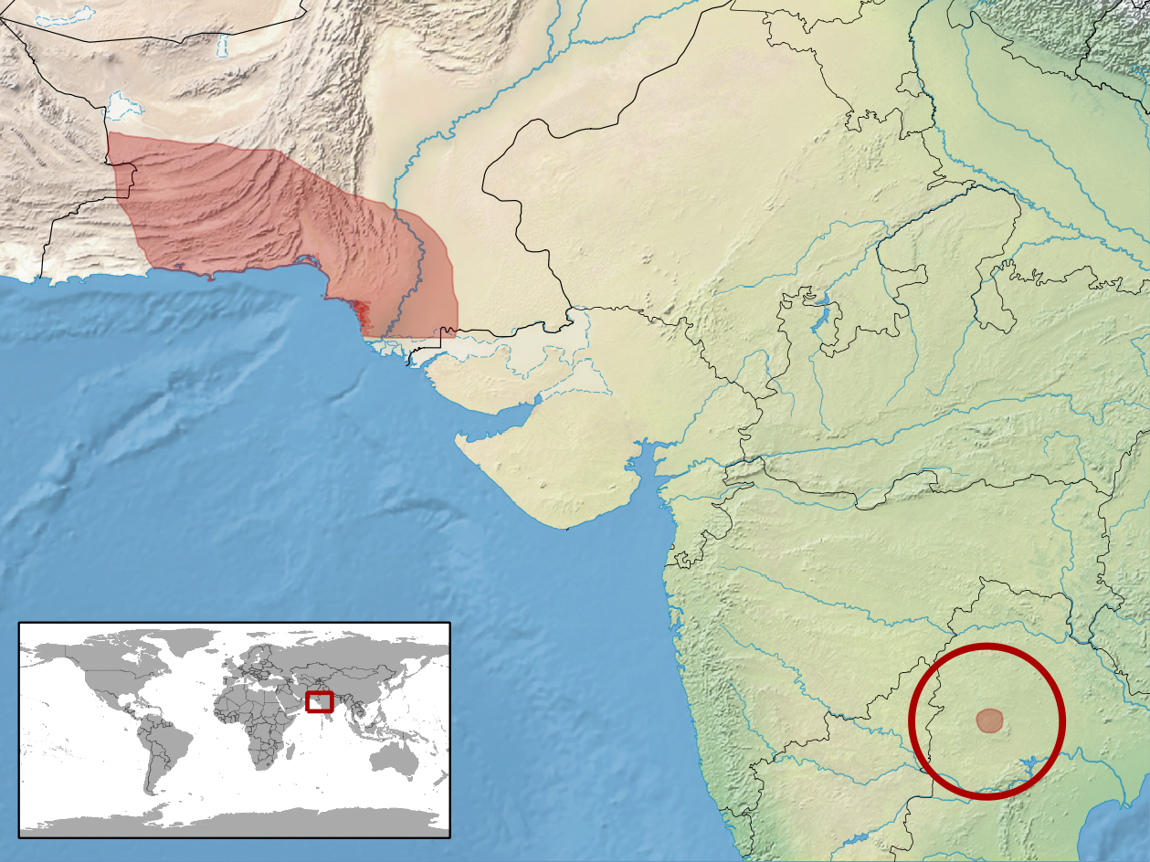 geographic distribution of Hemidactylus imbricatus syn Teratolepis fasciata (Native: India; Pakistan)